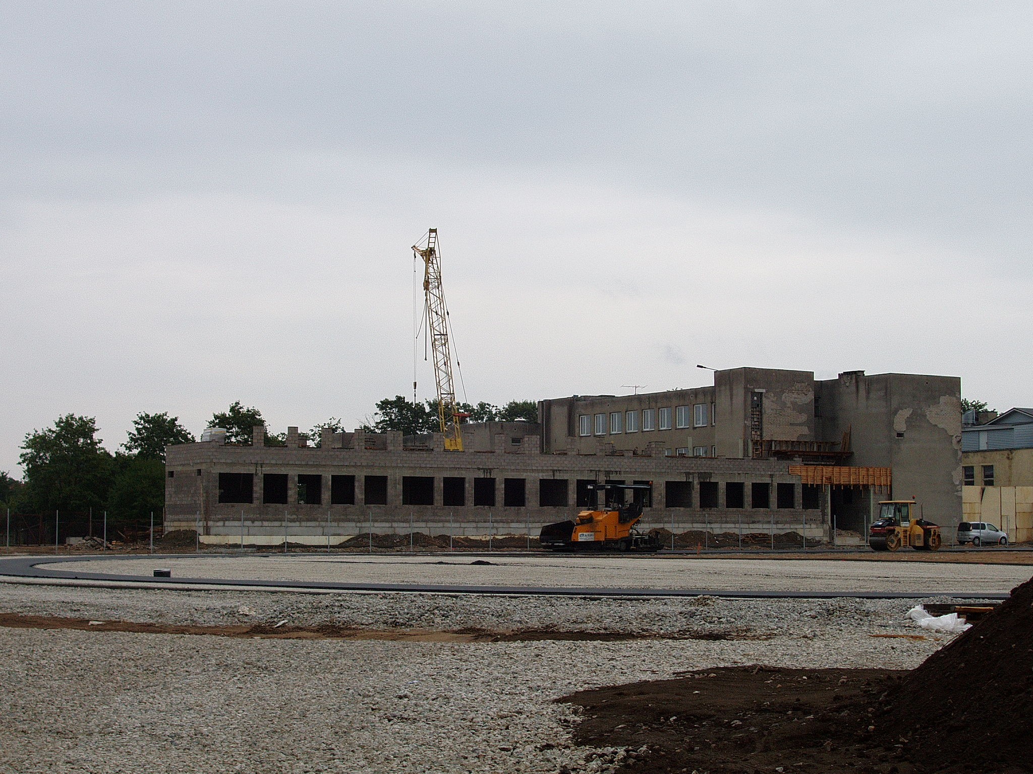 Kose Gymnasium. Reconstruction of the school stadium and building works of a new part of the schoolhouse.